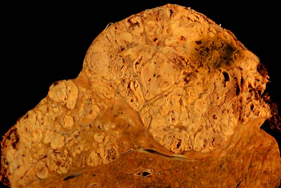 Hepatocellular carcinoma This specimen is from a 50ish woman who presented to the hospital with abdominal pain and ascites. The radiologist recovered what appeared to be whole blood on paracentesis. Cytological exam of the bloody fluid showed no evidence of malignancy. Liver function tests were abnormal, and serologic tests were positive for antibody to hepatitis C. The patient deteriorated rapidly and died within a few days. The autopsy showed this hepatocellular carcinoma occupying much of the volume of a cirrhotic liver. Furthermore, the tumor had invaded the diaphragm and ruptured into the peritoneal cavity, causing the bloody ascites. The photo shows a view of a longitudinal slice taken through the full length of the liver. The photos were shot with a Minolta X-370 with 100 mm bellows lens on Kodak Elite ISO 100 transparency film. The specimen was sliced fresh and fixed in formalin overnight, then briefly immersed in 70% alcohol to retrieve some of the native color and dull the surface reflections. Photograph by Ed Uthman, MD. Public domain. Posted 23 Sep 00